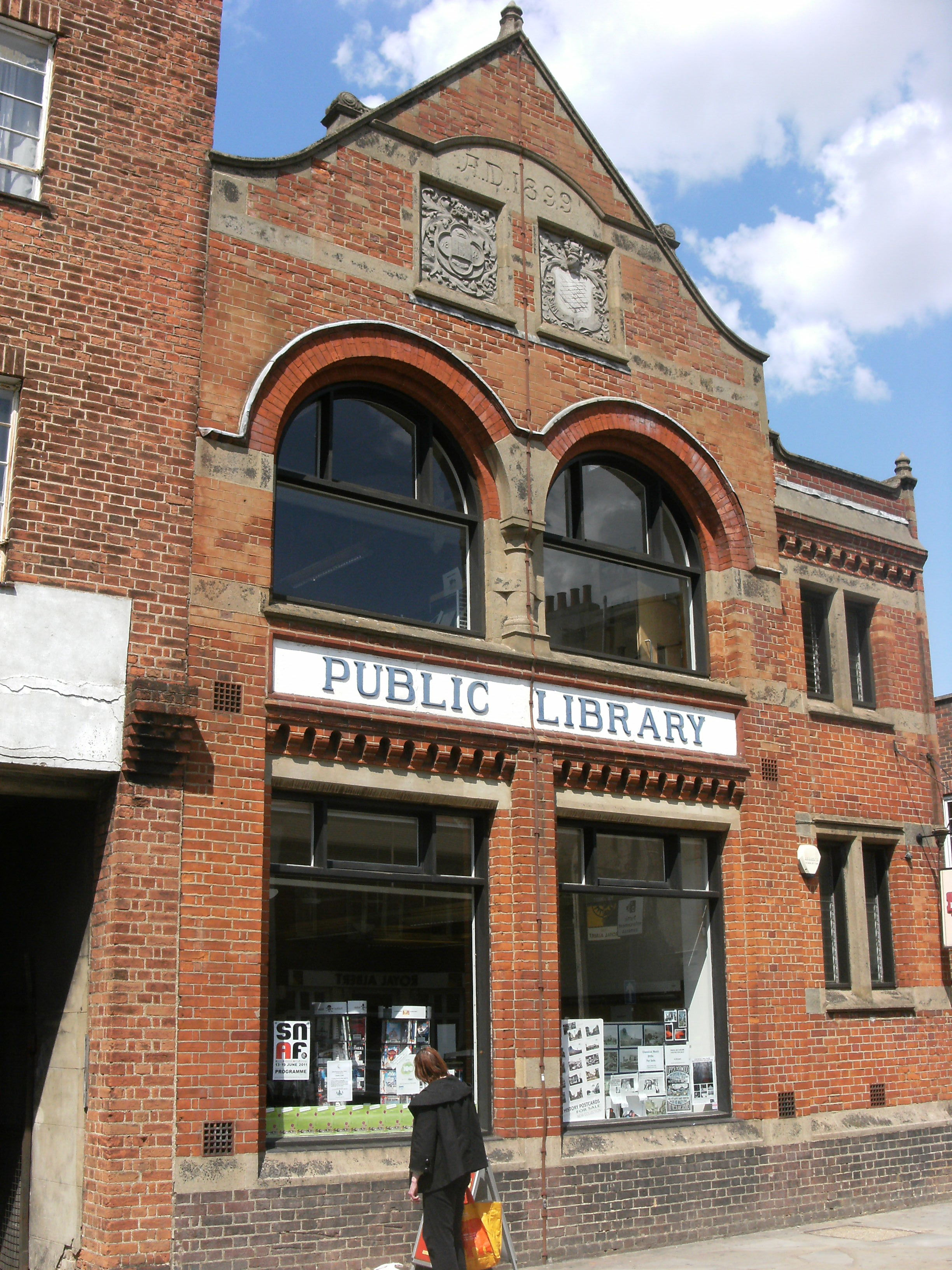 Upper Norwood Library, 39 Westow Hill, London SE19.